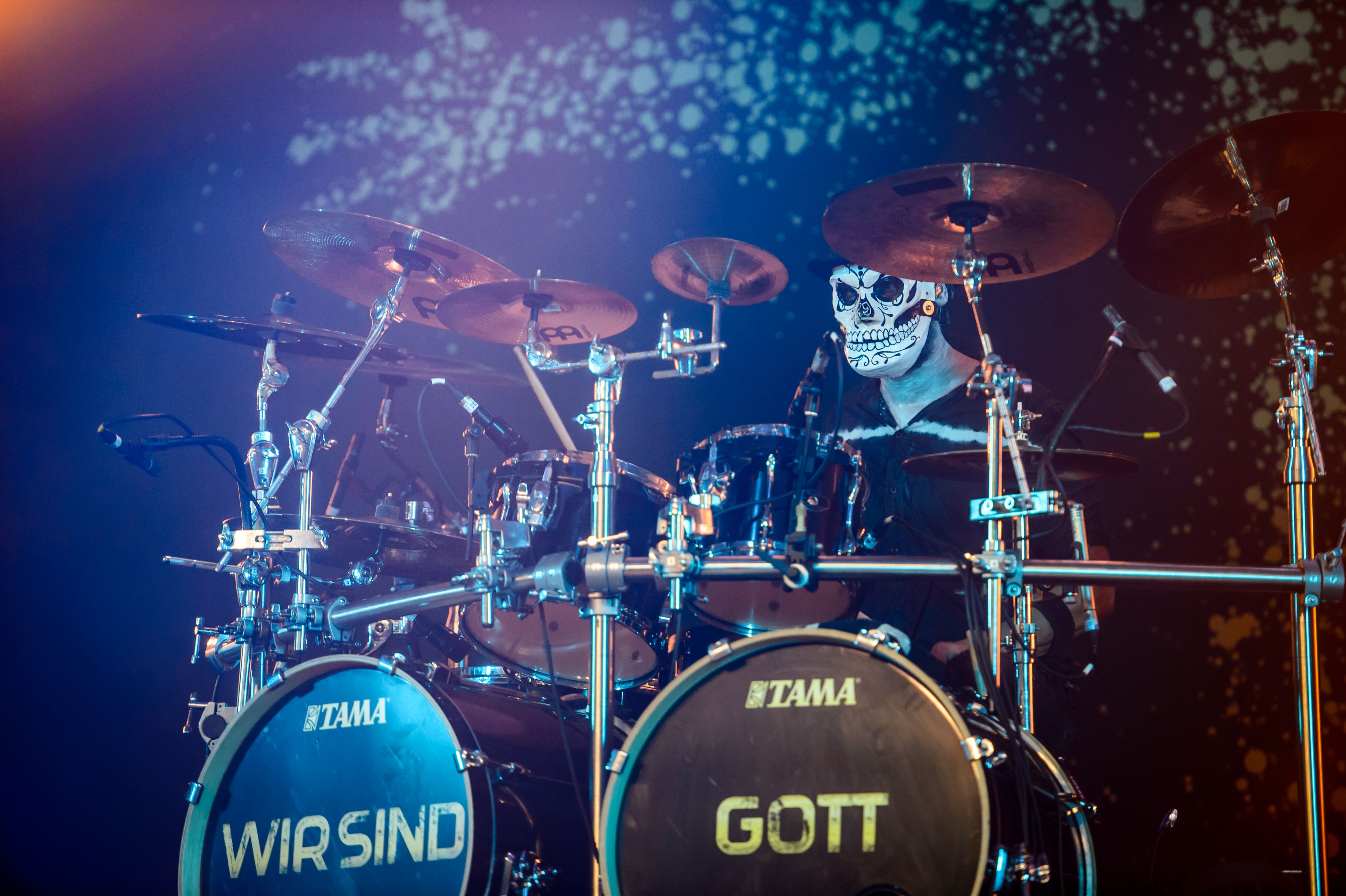 Hämatom; Wacken Open Air 2016